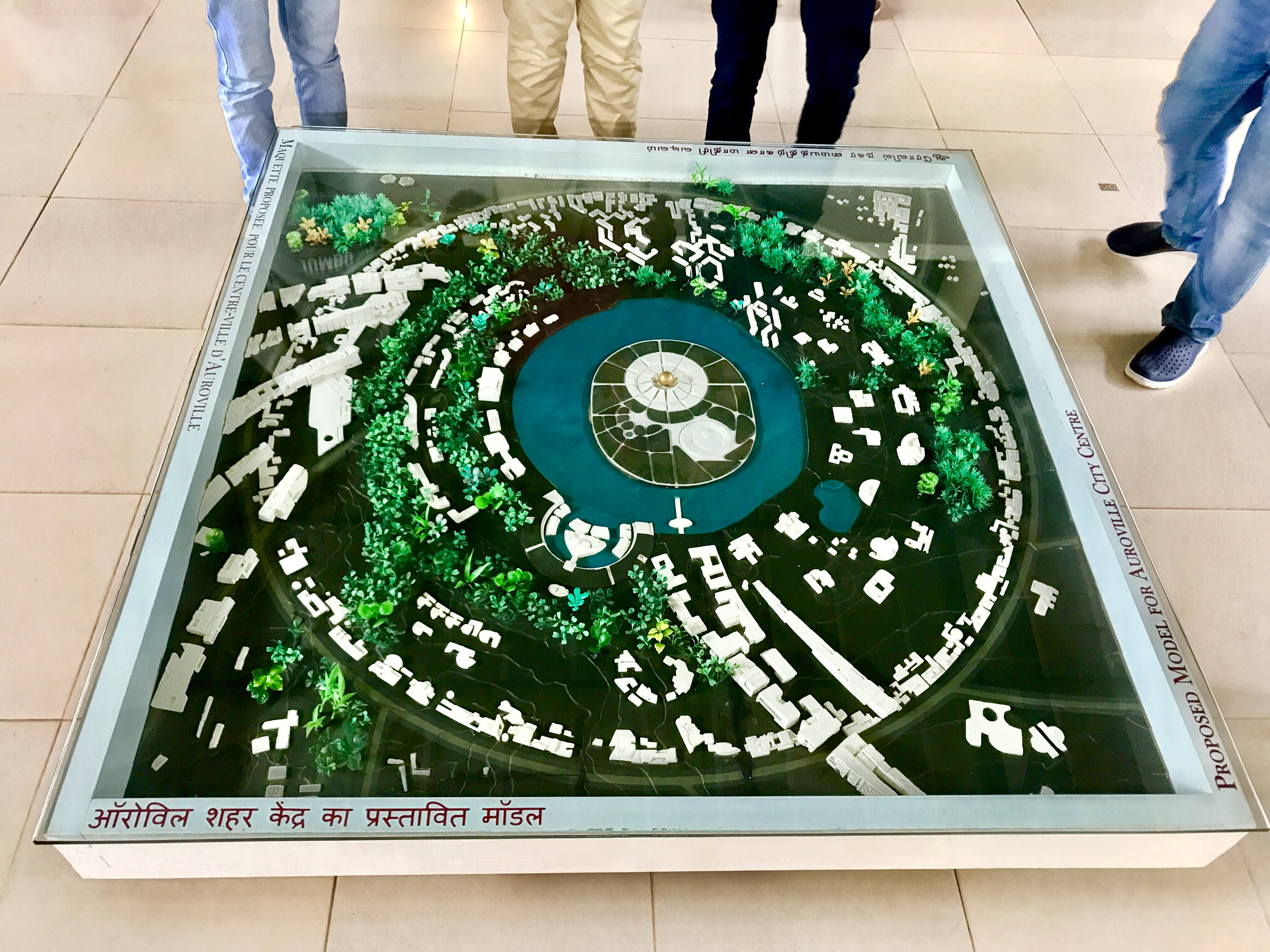 Auroville Township